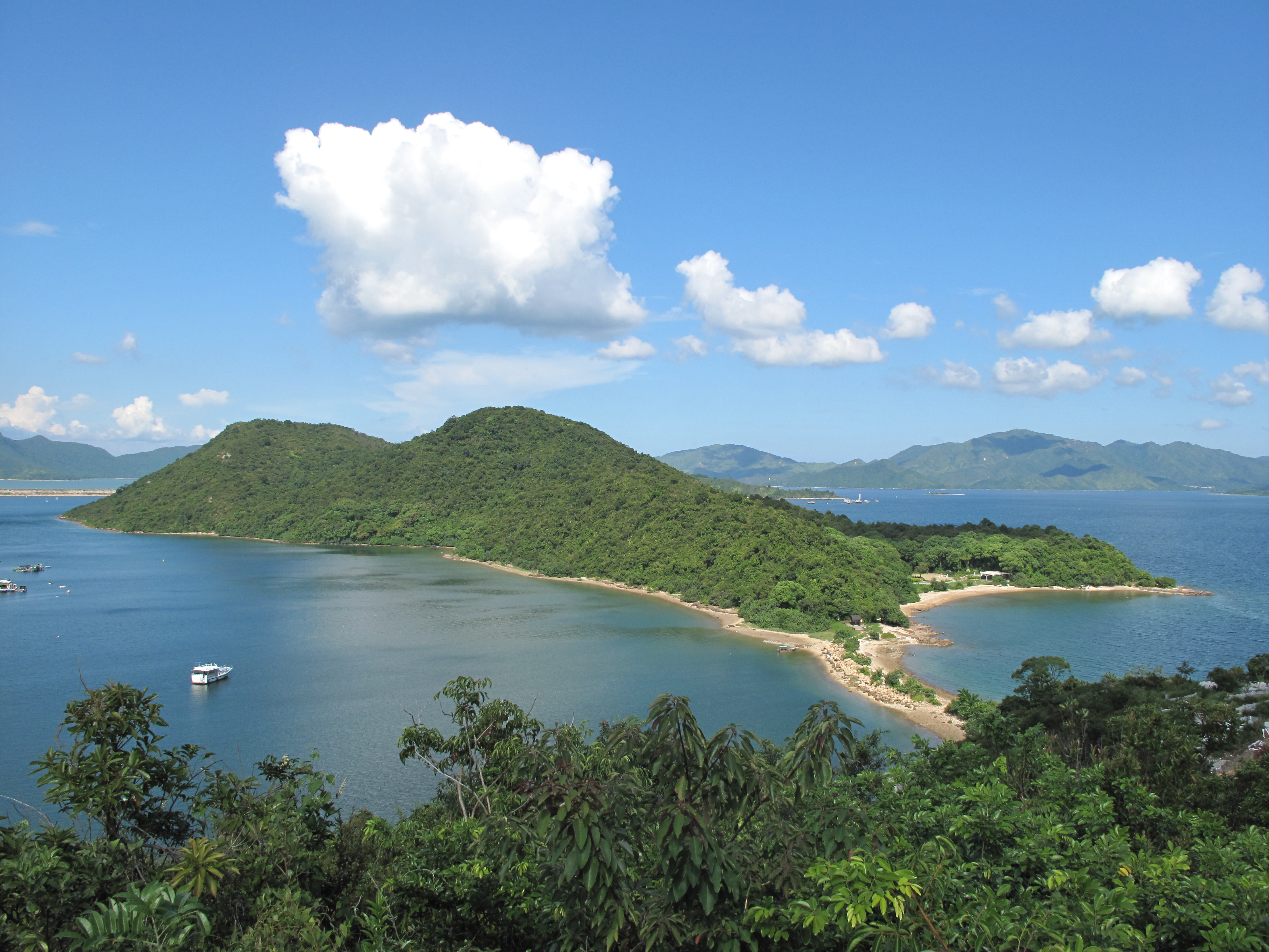 Photo of Ma Shi Chau